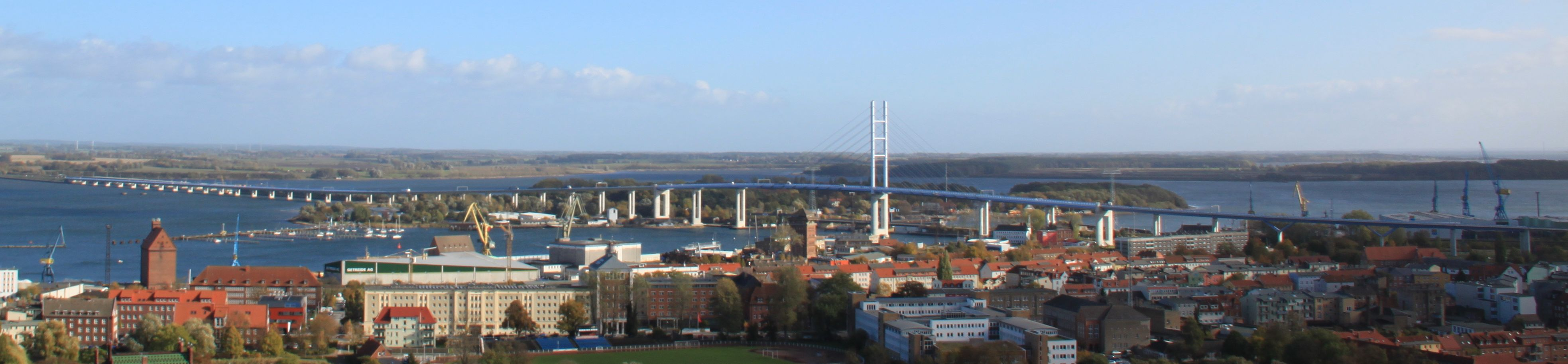 Rügen Bridge